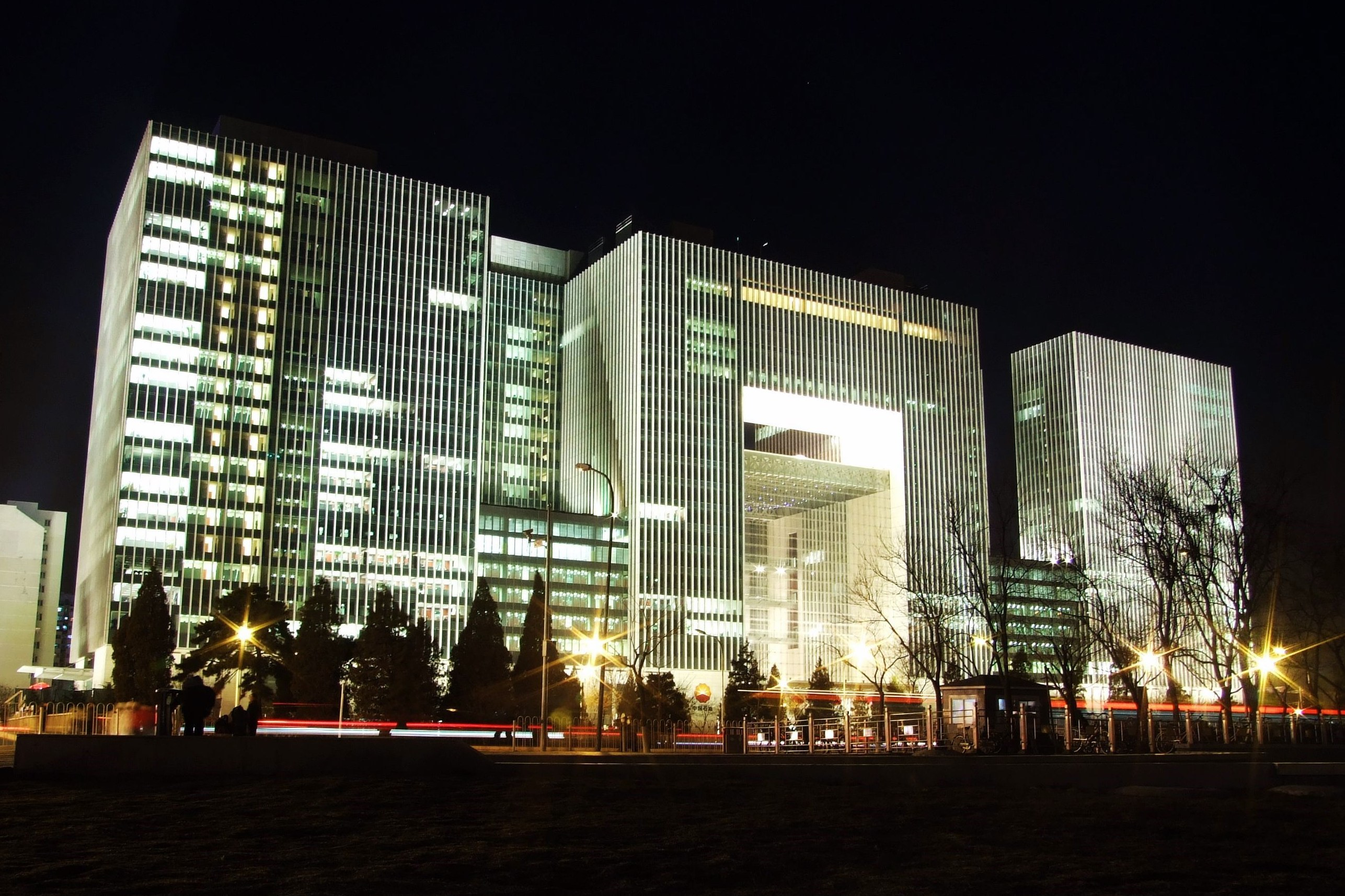 The headquarters of China National Petroleum Corporation and PetroChina, outside of Dongzhimen, Beijing - 9 Dongzhimen North Street, Dongcheng District, Beijing, P.R. China 100007 中文（中国大陆）: 北京东直门外，中国石油集团总部大楼夜景。